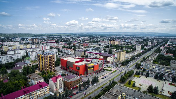 The city of Cherkessk